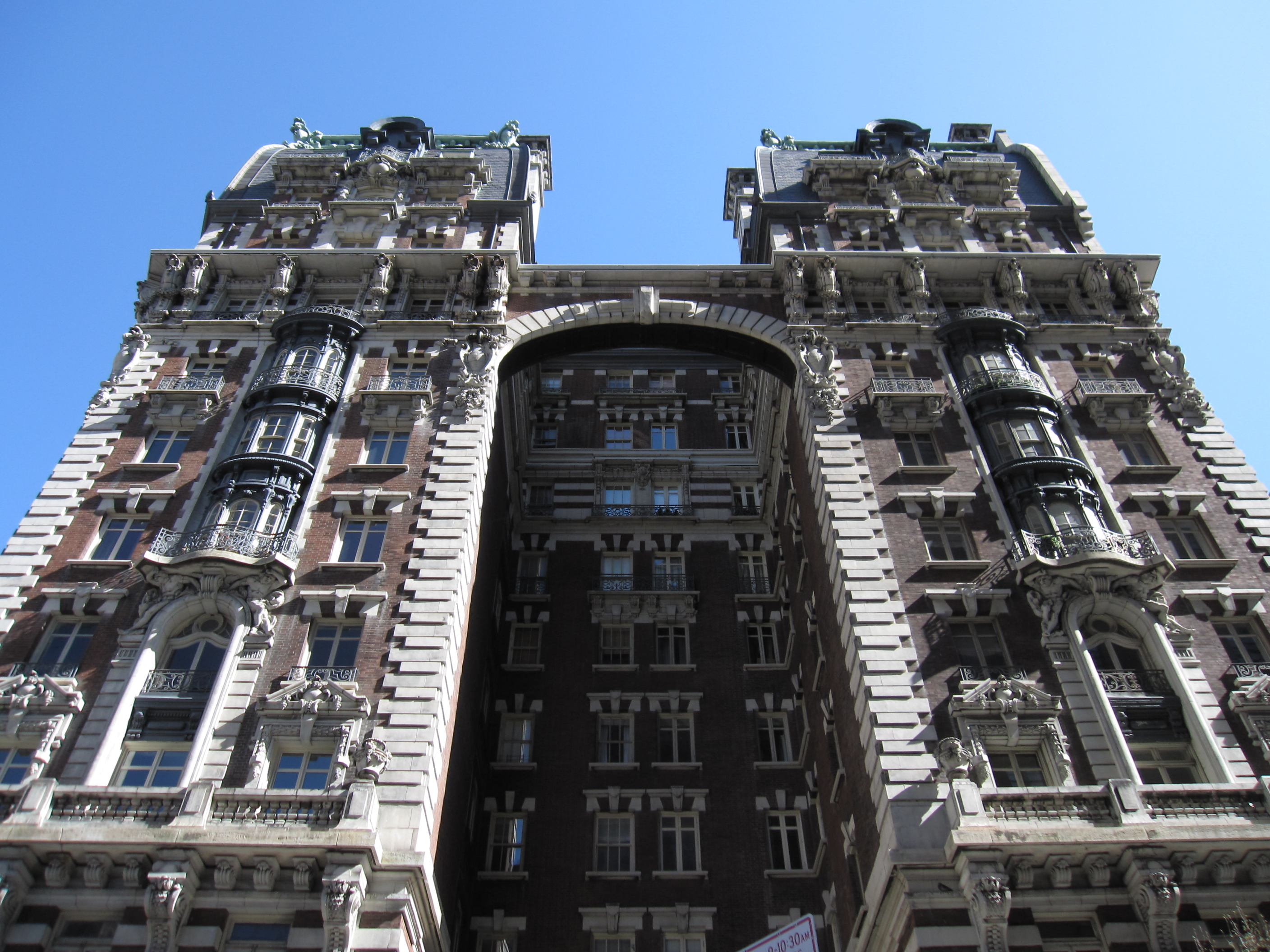 The Dorilton at 171 West 71st Street and Broadway.